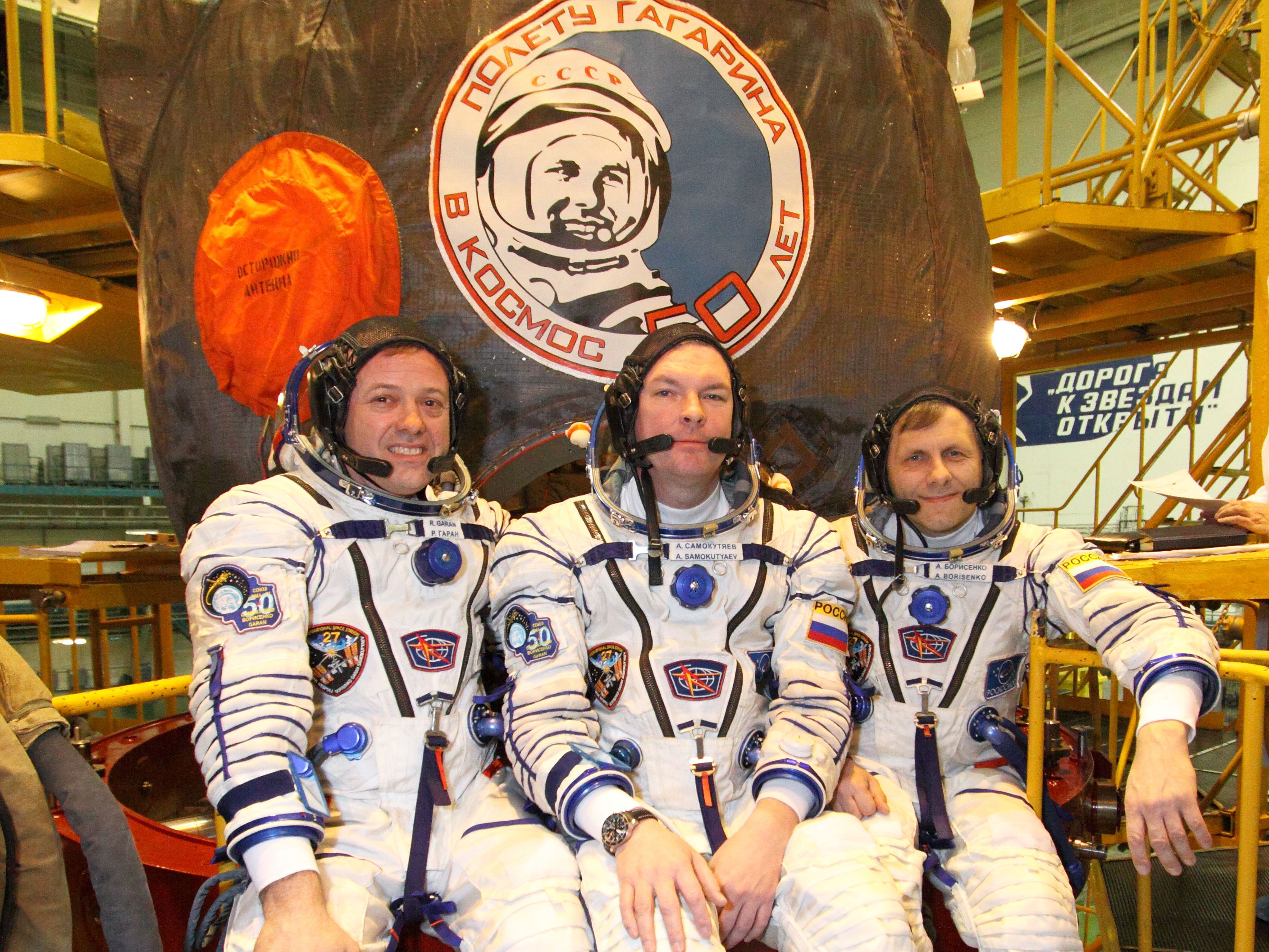 At the Baikonur Cosmodrome in Kazakhstan, NASA astronaut Ron Garan (left), Expedition 27 flight engineer; along with Russian cosmonauts Alexander Samokutyaev (center), Soyuz commander; and Andrey Borisenko, flight engineer, pose for pictures outside their Soyuz TMA-21 spacecraft during a check of its systems March 22, 2011. The Soyuz, which has been dubbed "Gagarin" and which bears the likeness of cosmonaut Yuri Gagarin, the first human in space, is scheduled for launch on April 5 (April 4, U.S. time), just one week shy of the 50th anniversary of Gagarin's historic journey into space from the same launch pad that the Expedition 27 crew will begin their mission from.